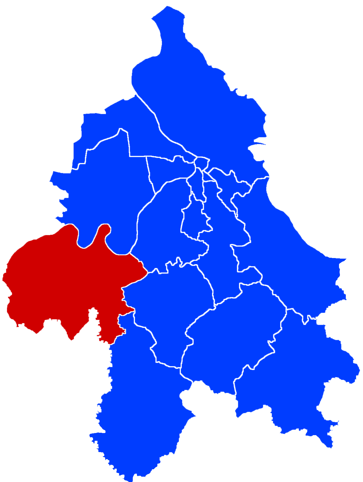 The graphical representation of the municipality of Obrenovac within the city of Belgrade